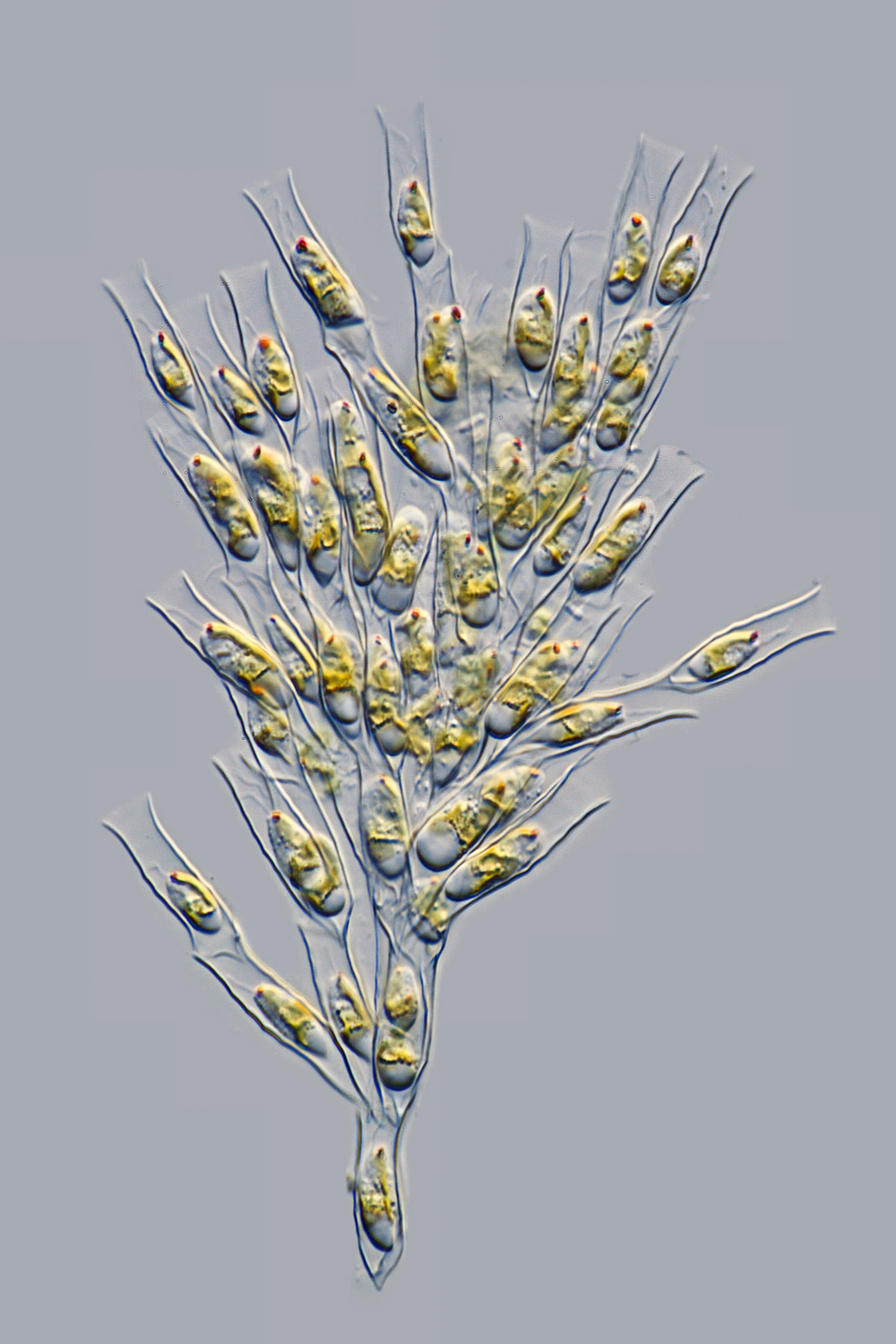 Dinobryon divergens, belongs to the Chrysophyceae (Golden Algae)